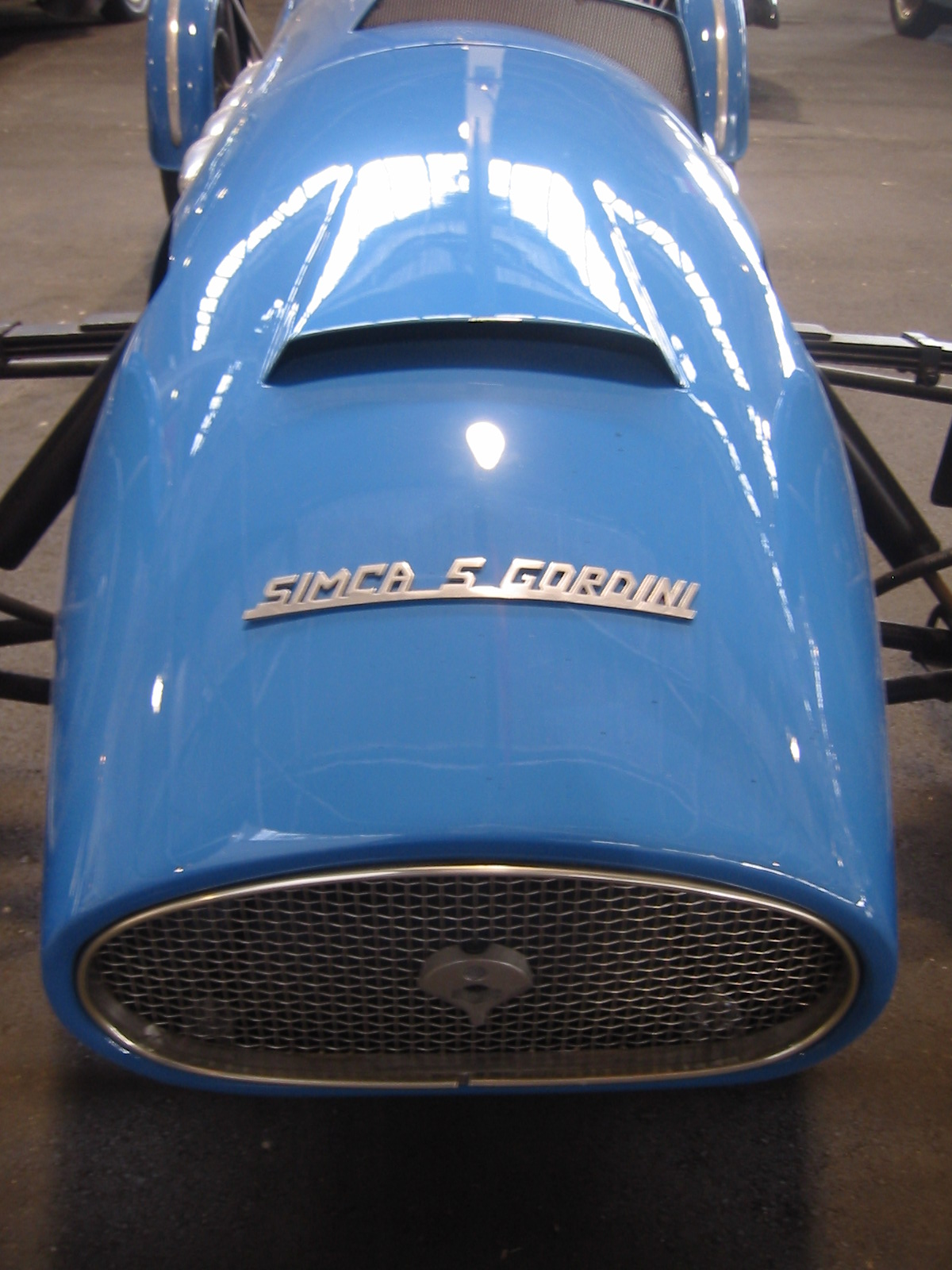 American Automobile Culture: Cars from the Lane Motor Museum 1948 Simca-Gordini Type 5 at the Lane Motor Museum in Nashville, Tennessee (USA) automobile, car, lane motor museum, museum, nashville, tennessee, usa, race car, streamlined